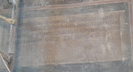 Saint Nicholas of Kalokratas Church Fresco